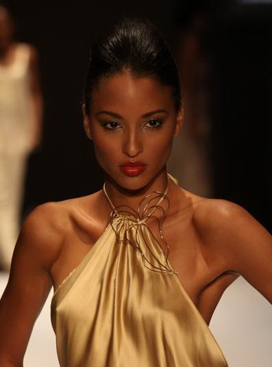 Leah Marville at Dominican Moda